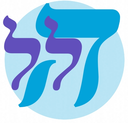 Official logo of the Day to Praise global interfaith praise initiative.